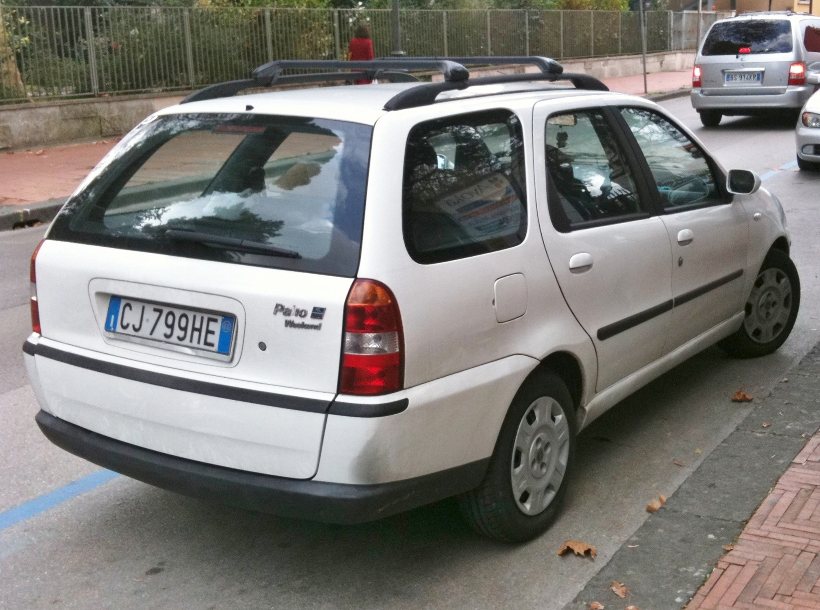 2003 Fiat Palio Weekend 1.9 JTD HL rear in Avellino, Italy